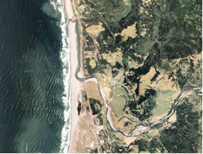 An aerial view of the mouth of the Pistol River on the southern Oregon coast